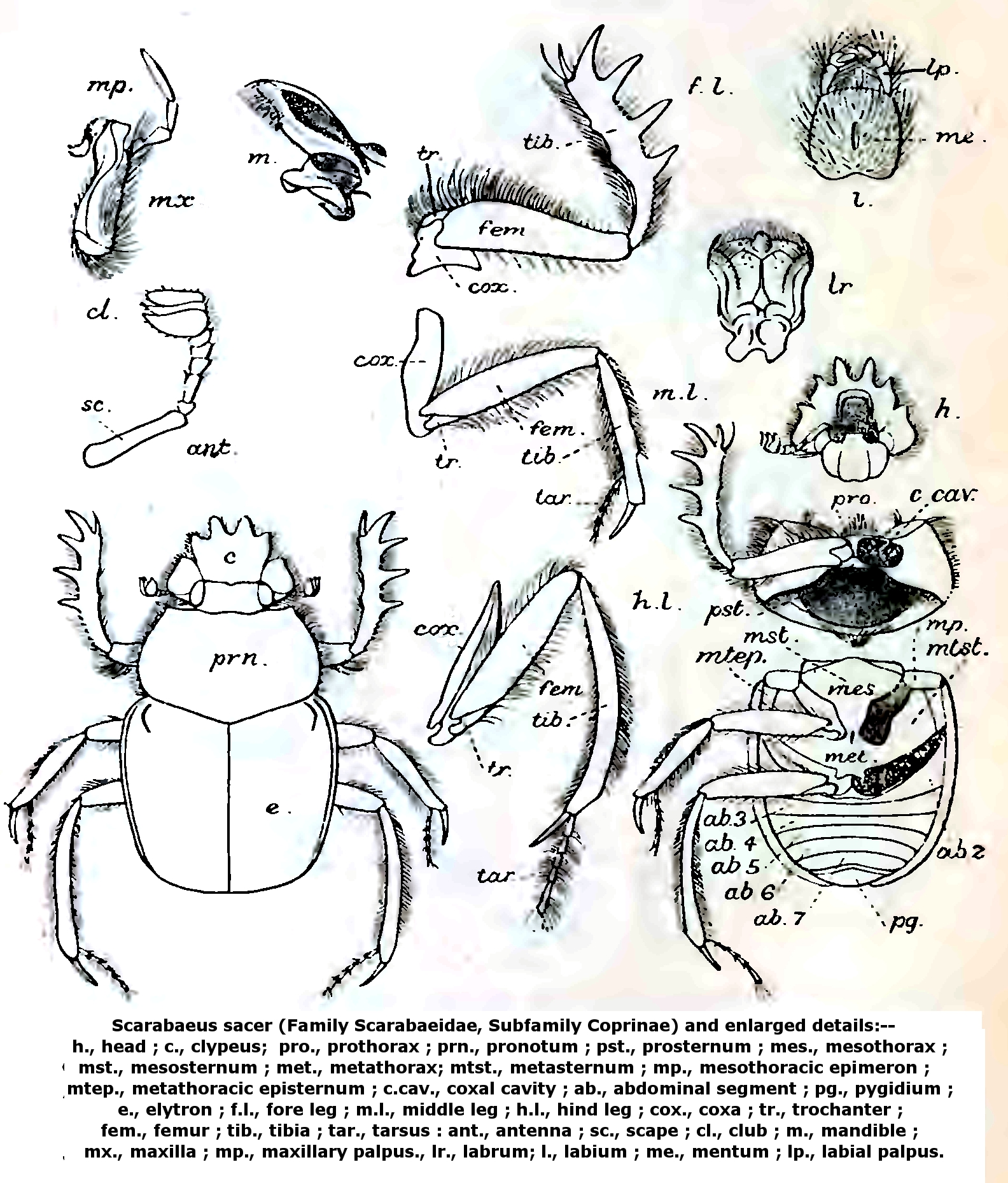 Morphological illustration of Sacred scarab from G J Arrow, early 20th century